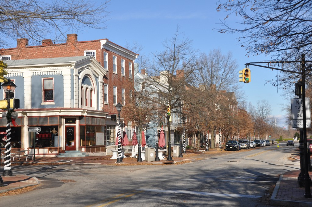 High Street in Burlington, New Jersey, part of the High Street Historic District.